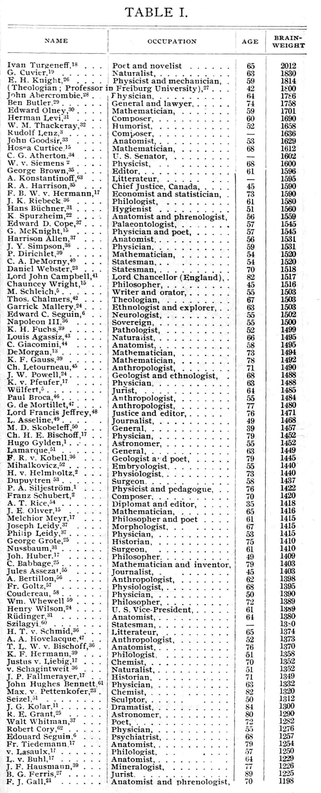 96 brain weights of notable persons, as tabelated in Spitzka's article